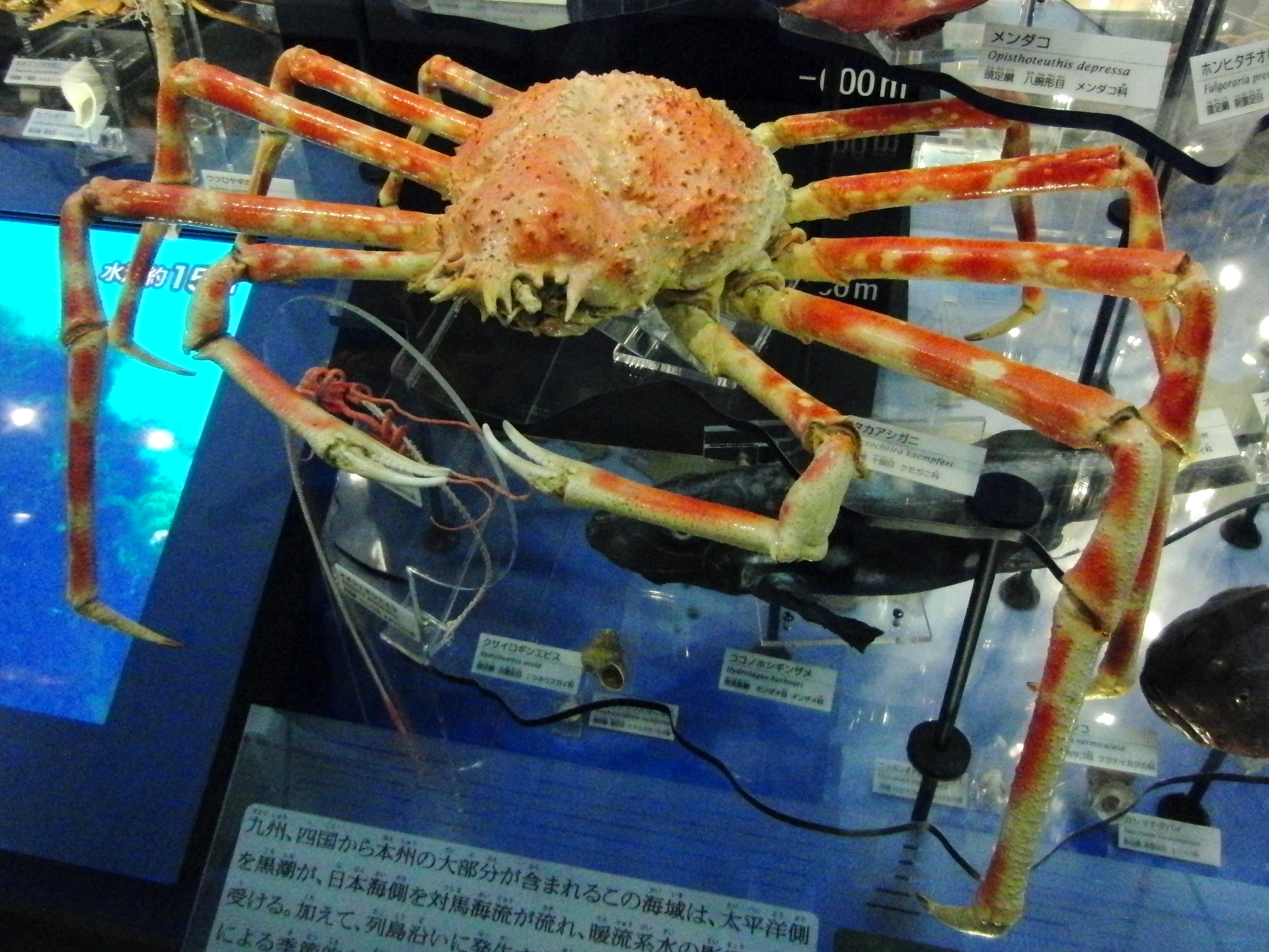 Stuffed specimen of Japanese spider crab (Macrocheira kaempferi). Exhibit in the National Museum of Nature and Science, Tokyo, Japan.